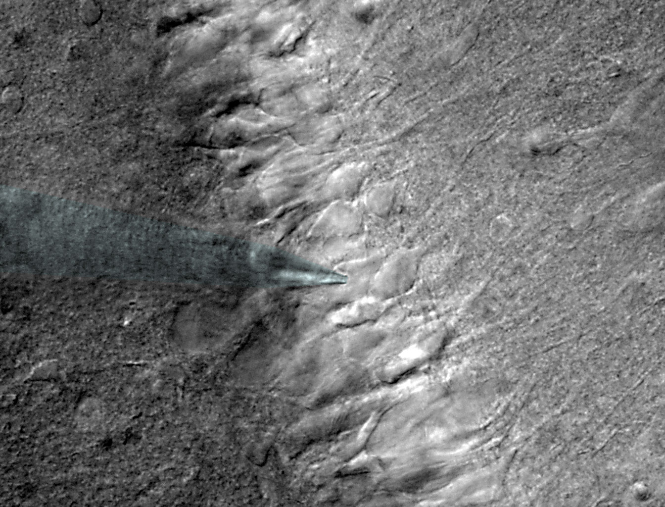 image of whole cell patch clamp onto CA1 region of hippocampus.